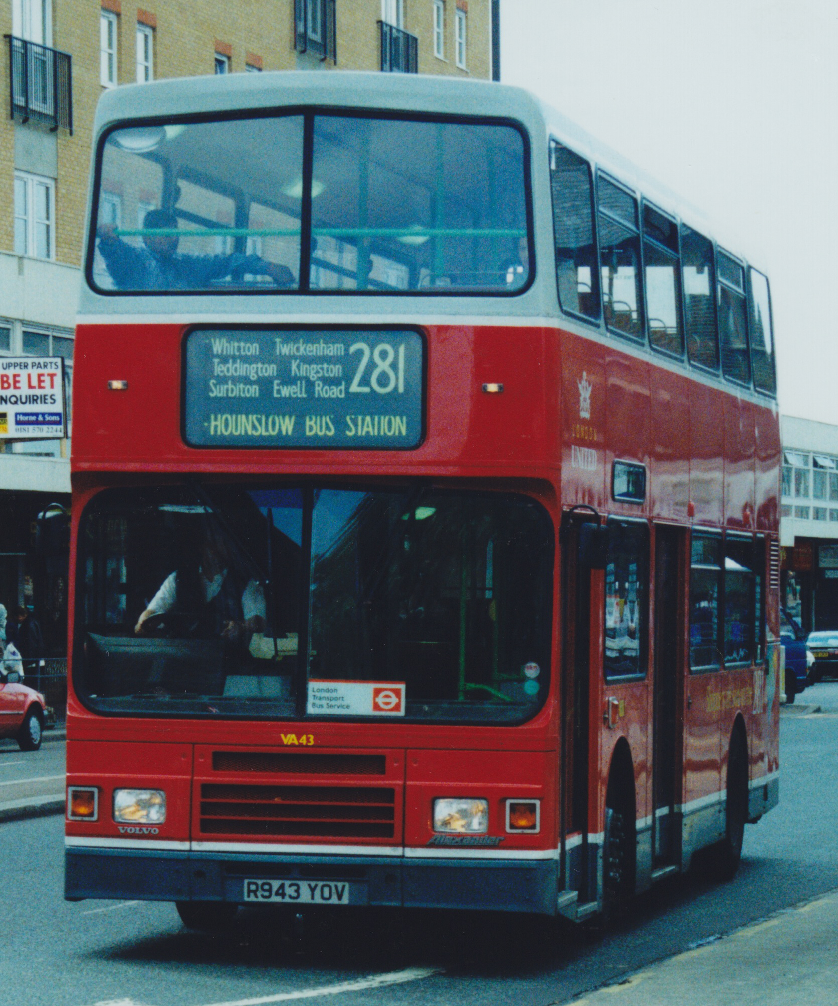 London United bus VA43 (reg. R943 YOV), a 1998 Volvo Olympian double-decker with Alexander RH bodywork, pictured in Hounslow, operating London Buses route 281, for which it wears route branding towards the rear of the bus. It's pictured here in excellent condition, having just entered service two months previously, when 25 such vehicles were introduced to the 281 (VA32-54), based out of Fulwell garage. It worked in London until November 2005, becoming surplus when Transport for London started specifying low floor buses. It worked for another two years in Manchester with UK North, numbered 226, before being exported to Dualway Coaches of Rathcoole in the Republic of Ireland, re-registered 98-D-77722.